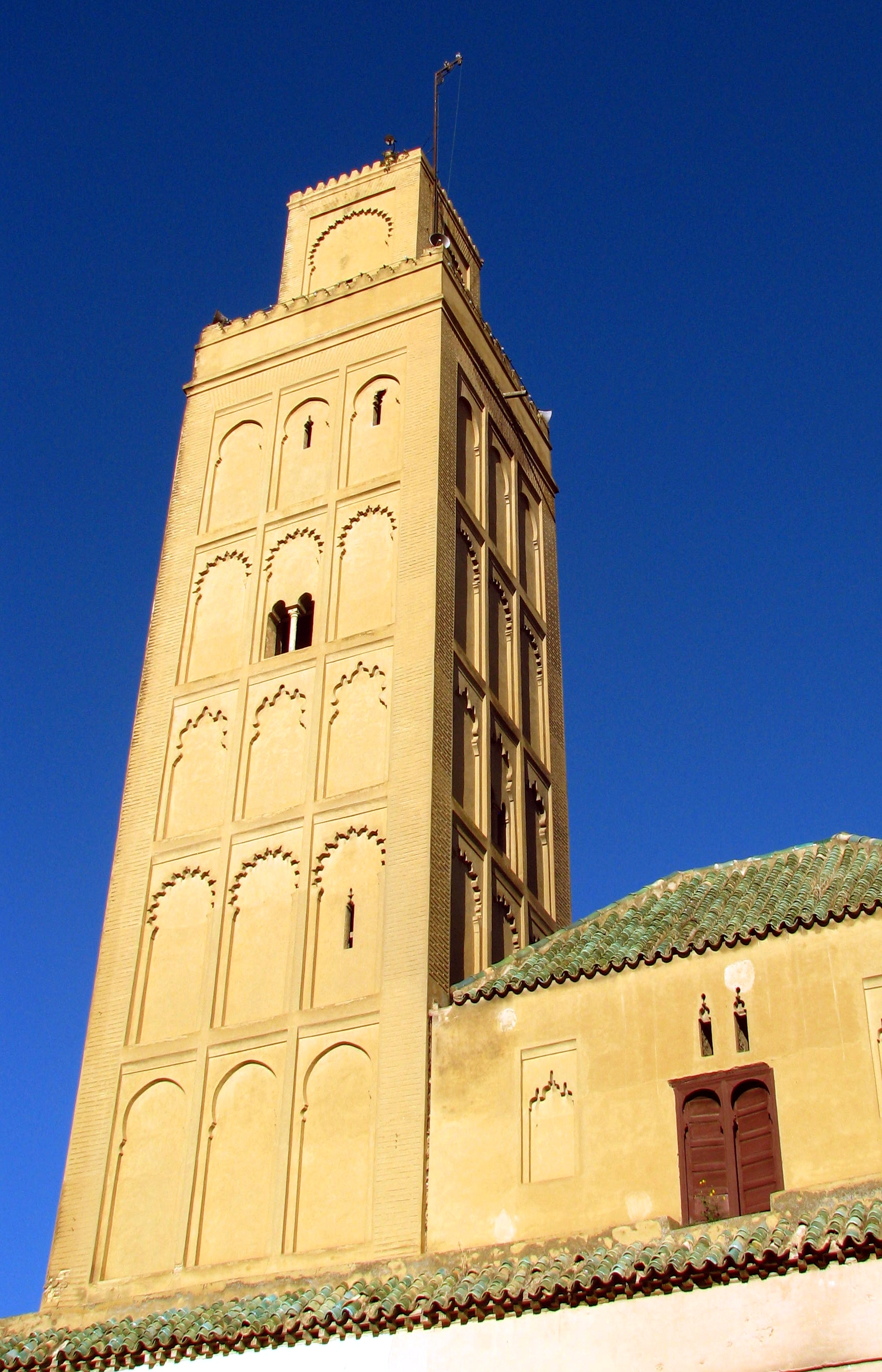 The minaret of the Bab Berdieyinne Mosque in Meknès, Morocco